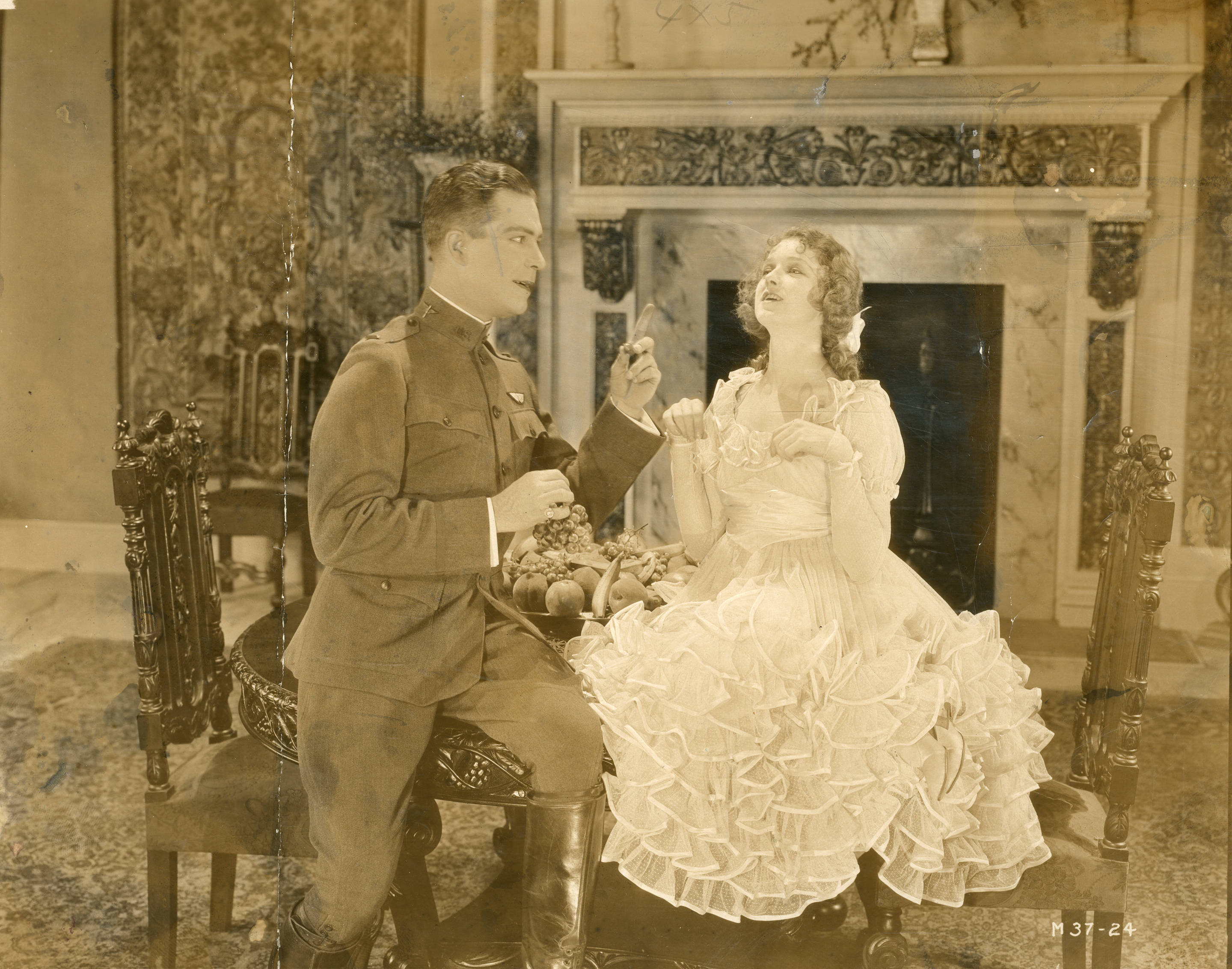 A scene from the American drama film You Never Saw Such a Girl (1919), which played at the Mission Theater, Seattle. Includes Vivian Martin and Harrison Ford. Subjects: motion pictures, actresses, actors